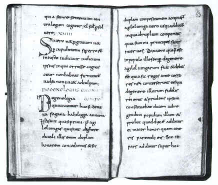 one page of the Lex Baiuvariorum from the 9th century Ingolstätter manuscript that today is at the University Library of Munich; the page shows the paragraph that determines: "... About the families, who are called the Huosi, Trozza, Fagana, Hahiligga and Anniona: those are almost the first, behind the Agilolfings, who are the ducal house, ..." (De genelogia, qui vocantur Huosi Trozza Fagana Hahiligga Anniona: isti sunt quasi primi post Agilolvingas, qui sunt de generi ducali ...)